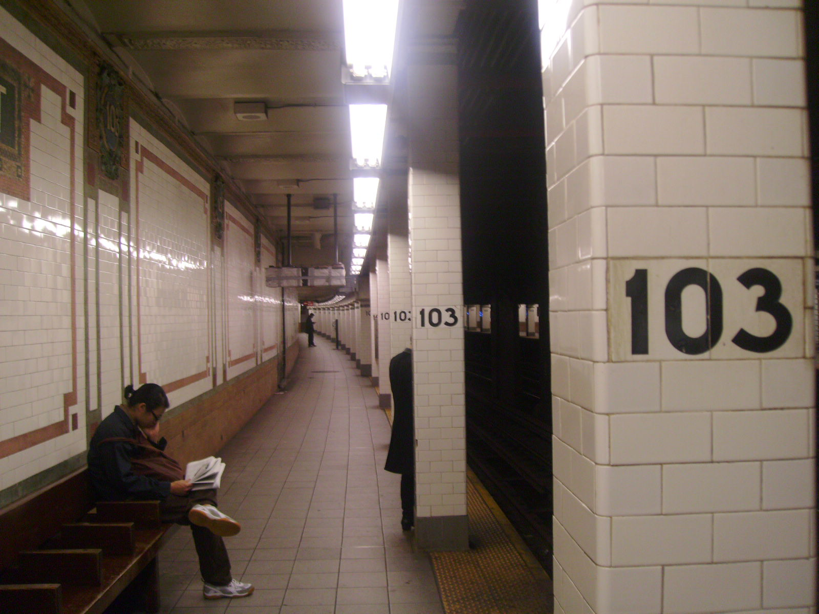 A platform view of the downtown bound 1 train station at the 103rd Street Broadway - Seventh Avenue Line (1 Train) station in the Upper West Side of New York on Broadway.